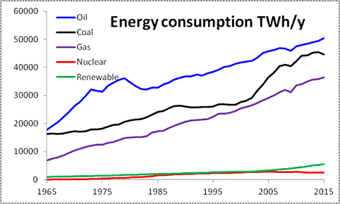 from BP